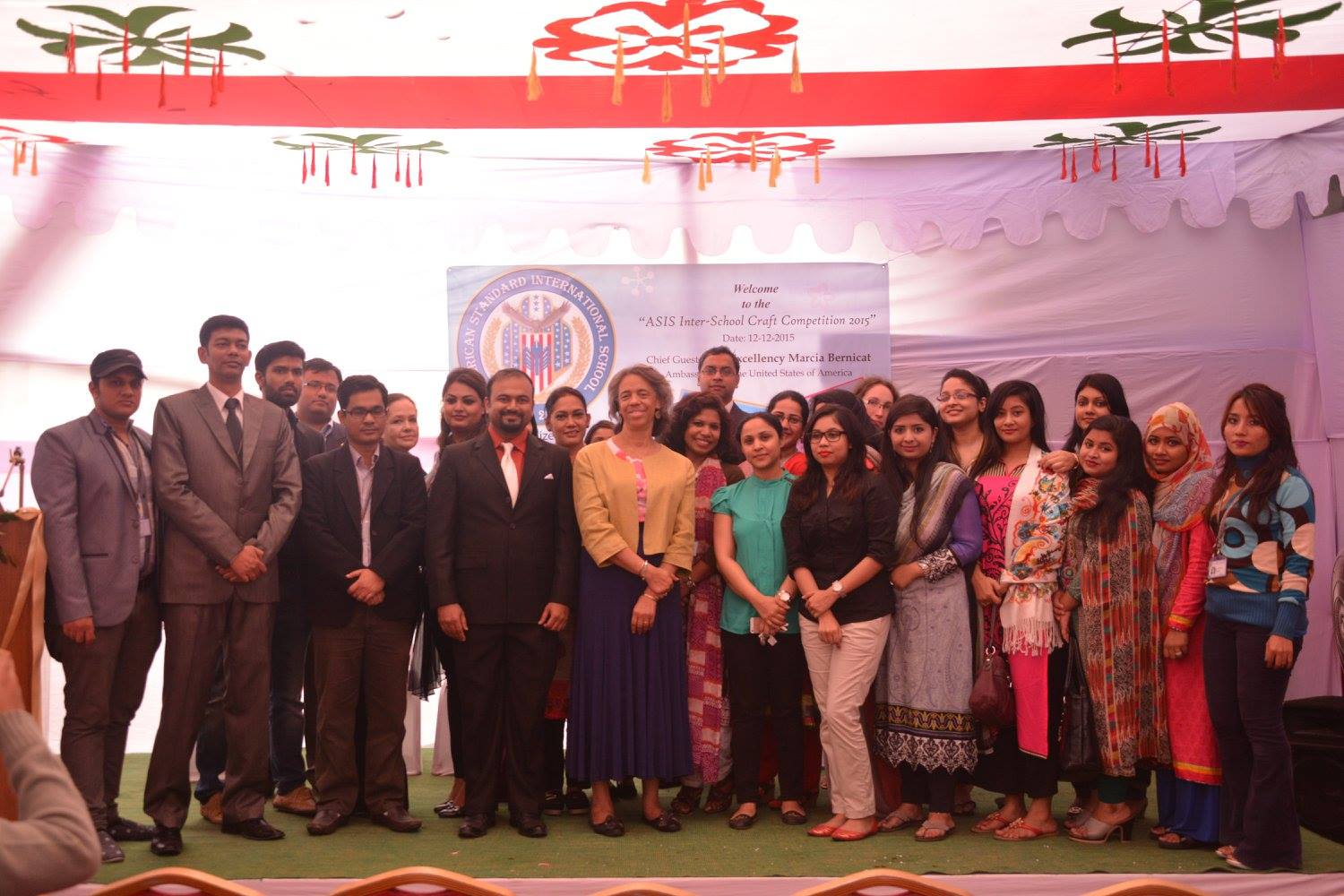 Ambassador Bernicat at ASIS' Inter-School Craft Competition